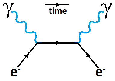 Feynman diagram style of the Compton scattering interaction of an electron and a photon.